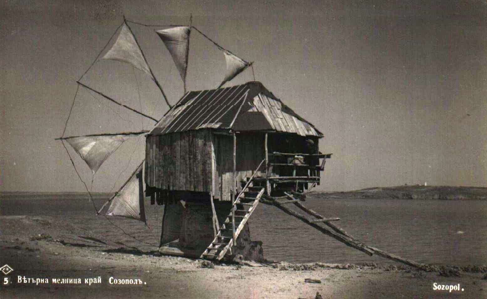 Windmill near Sozopol, Bulgaria